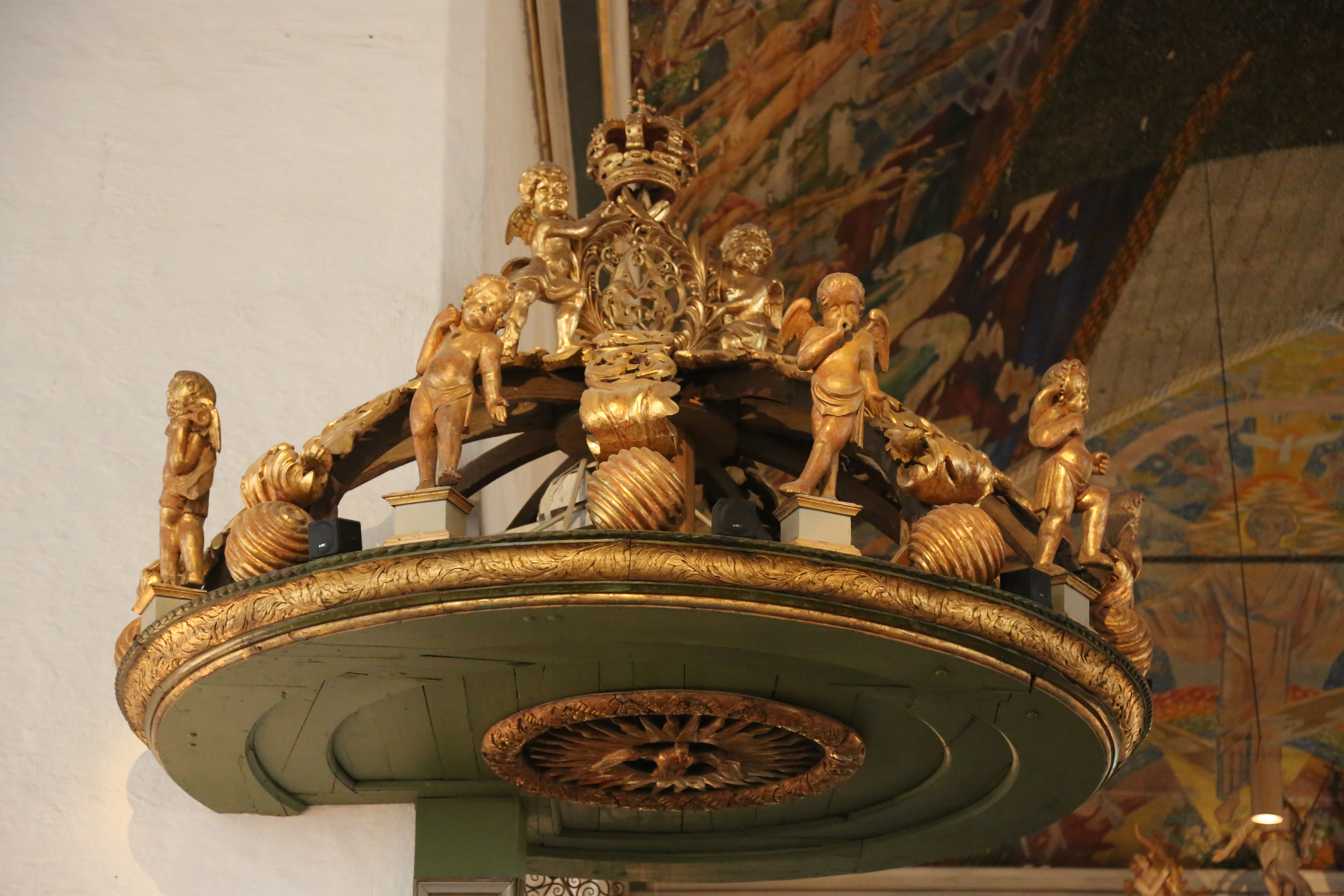 Oslo domkirke (Oslo Cathedral). Pulpit